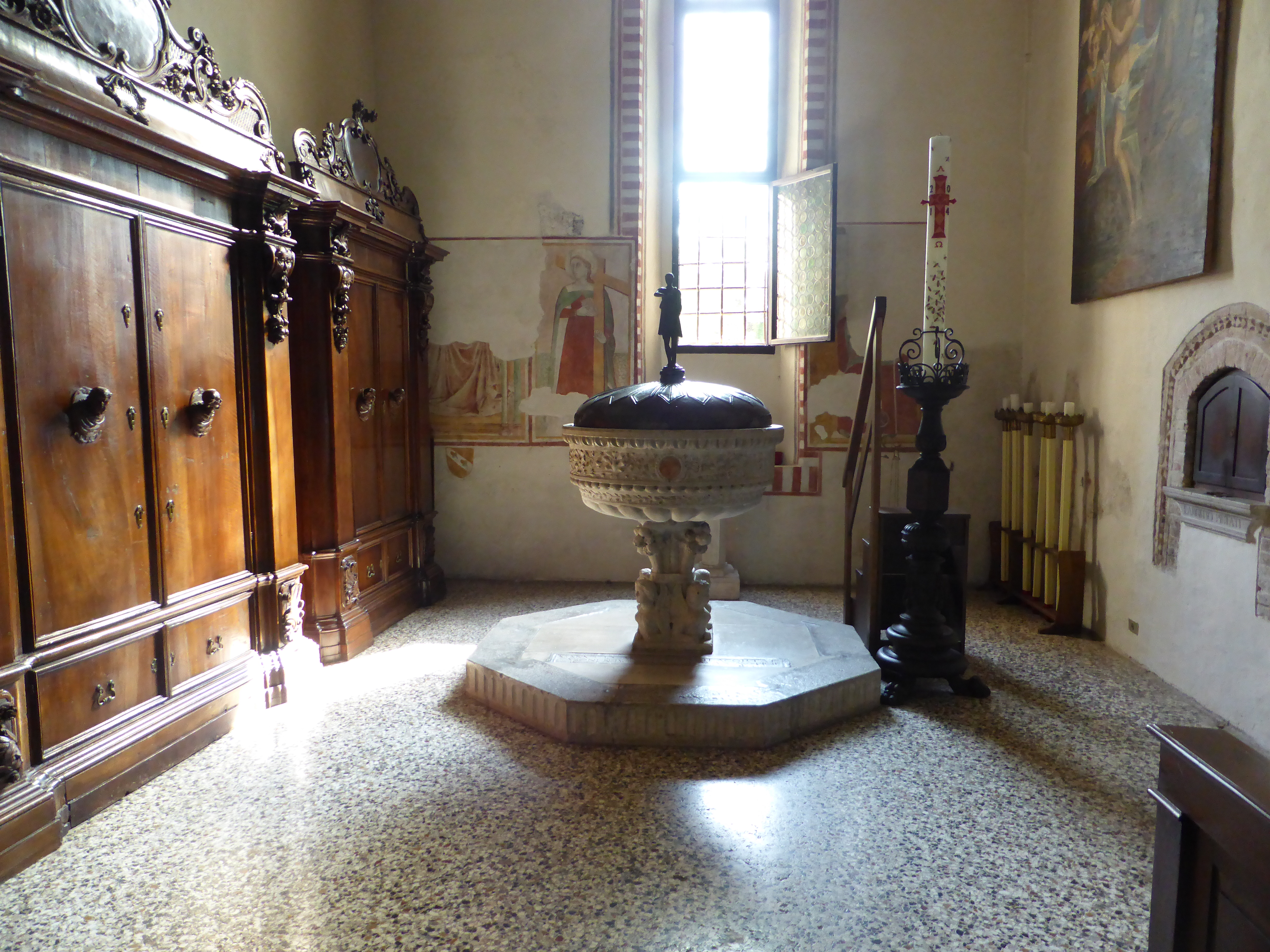 The baptistry into the Spilimbergo church, a work made by Giovanni Antonio Pilacorte (an Italian stonemasonry) in the 1492.